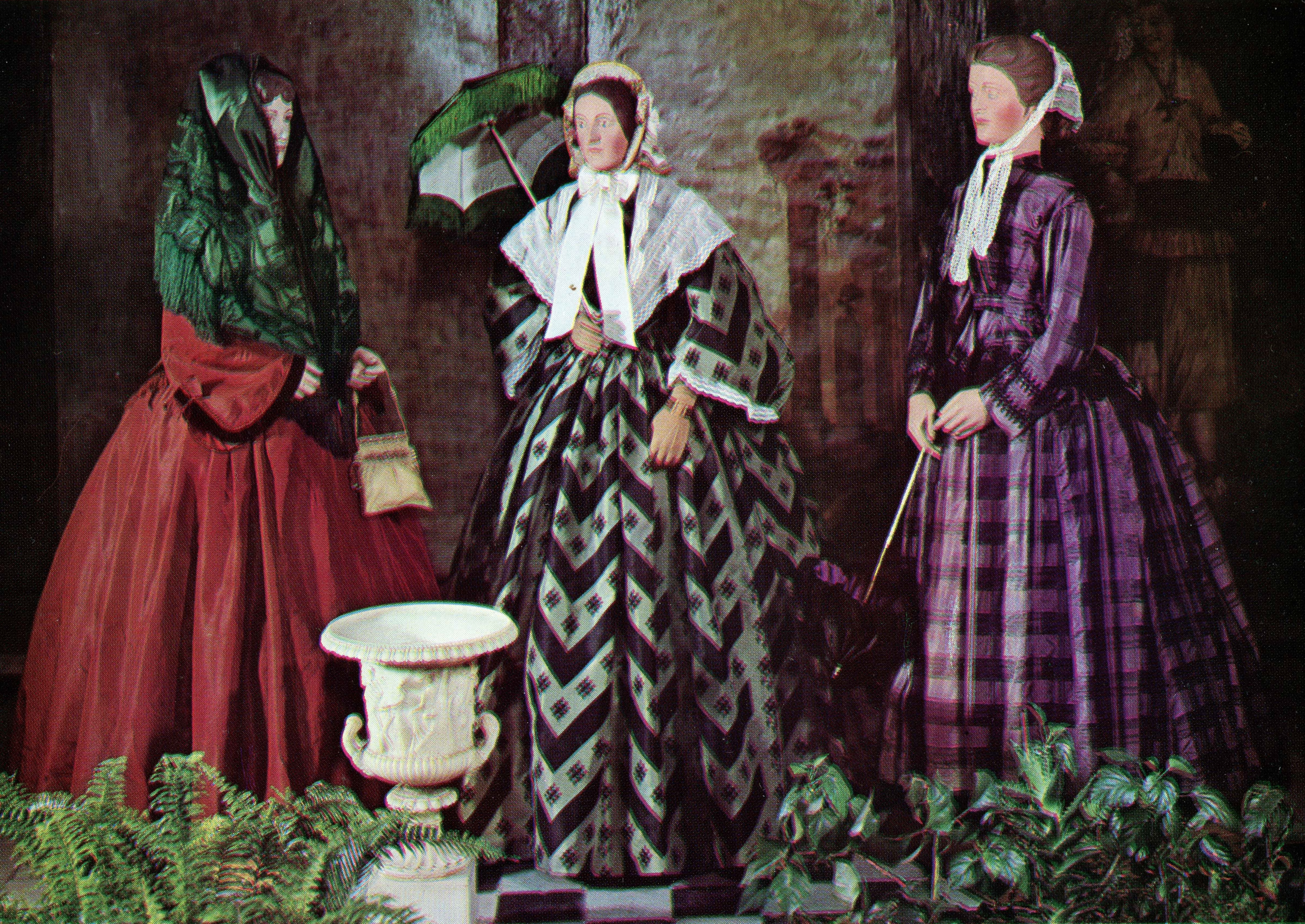 Walking dresses, German, around 1850-60